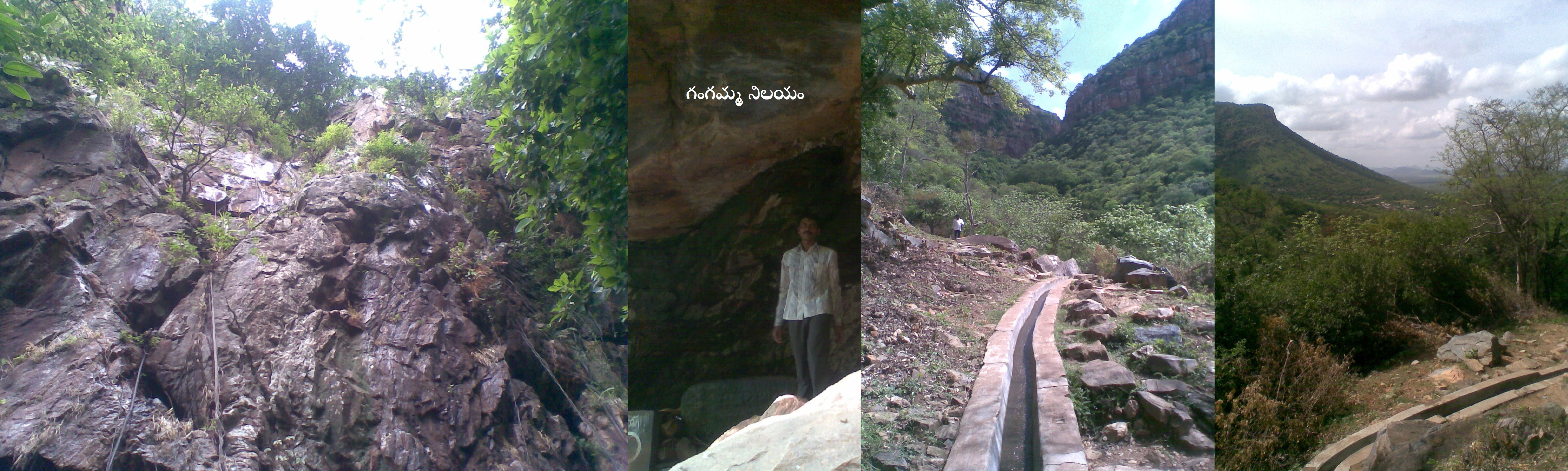 Waterfalls at Udayagiri hills, Nellore District, A.P.